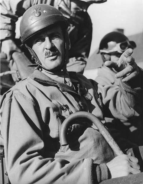 French general Leclerc commands french division in Homeland